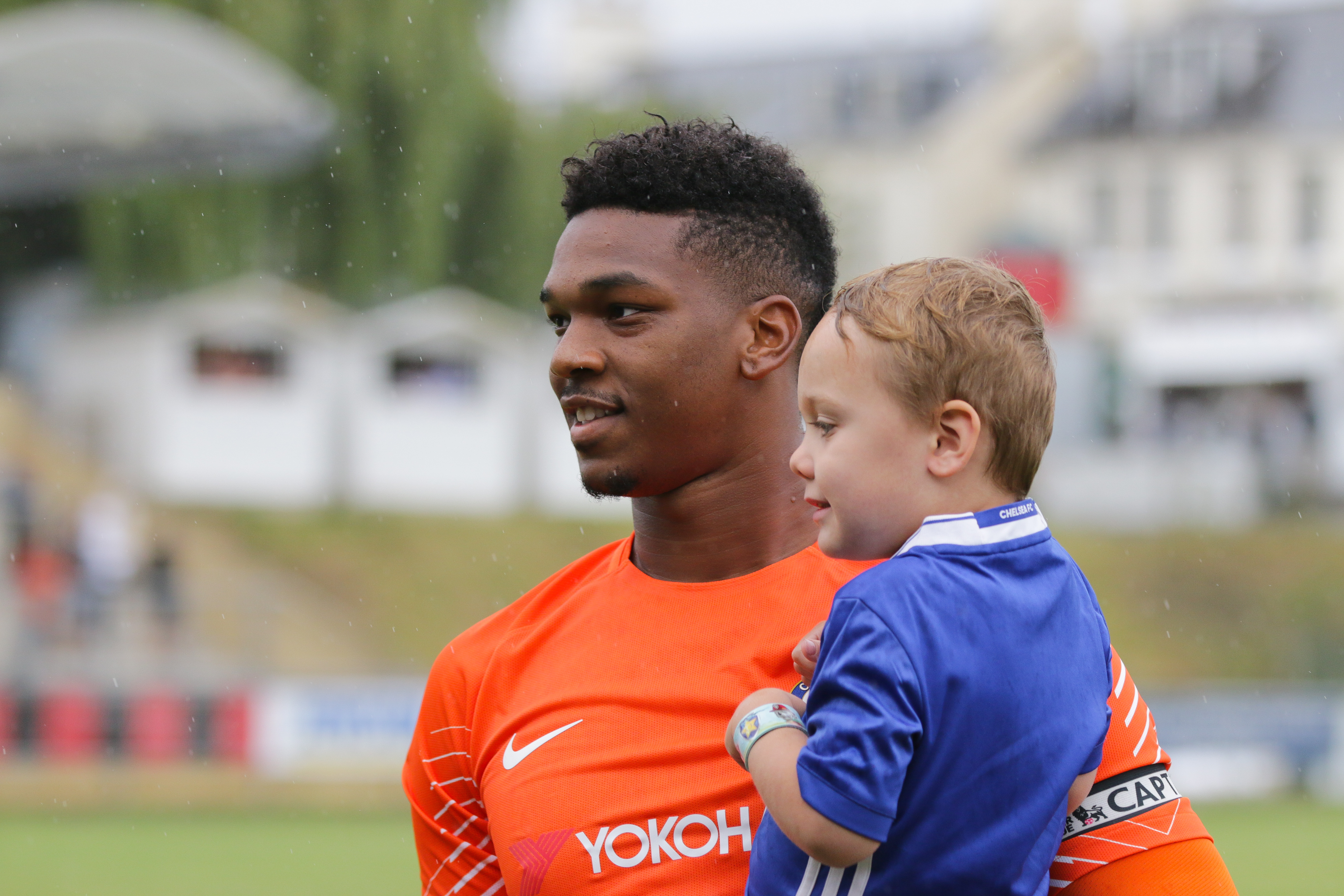 Lewes 0 Chelsea DS 1 Pre Season 22 07 2017-149.jpg